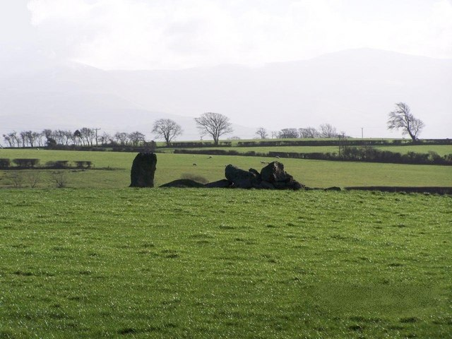 Ucheldref Burial Chambers The two Burial Chambers with a misty Snowdonia in the Background.